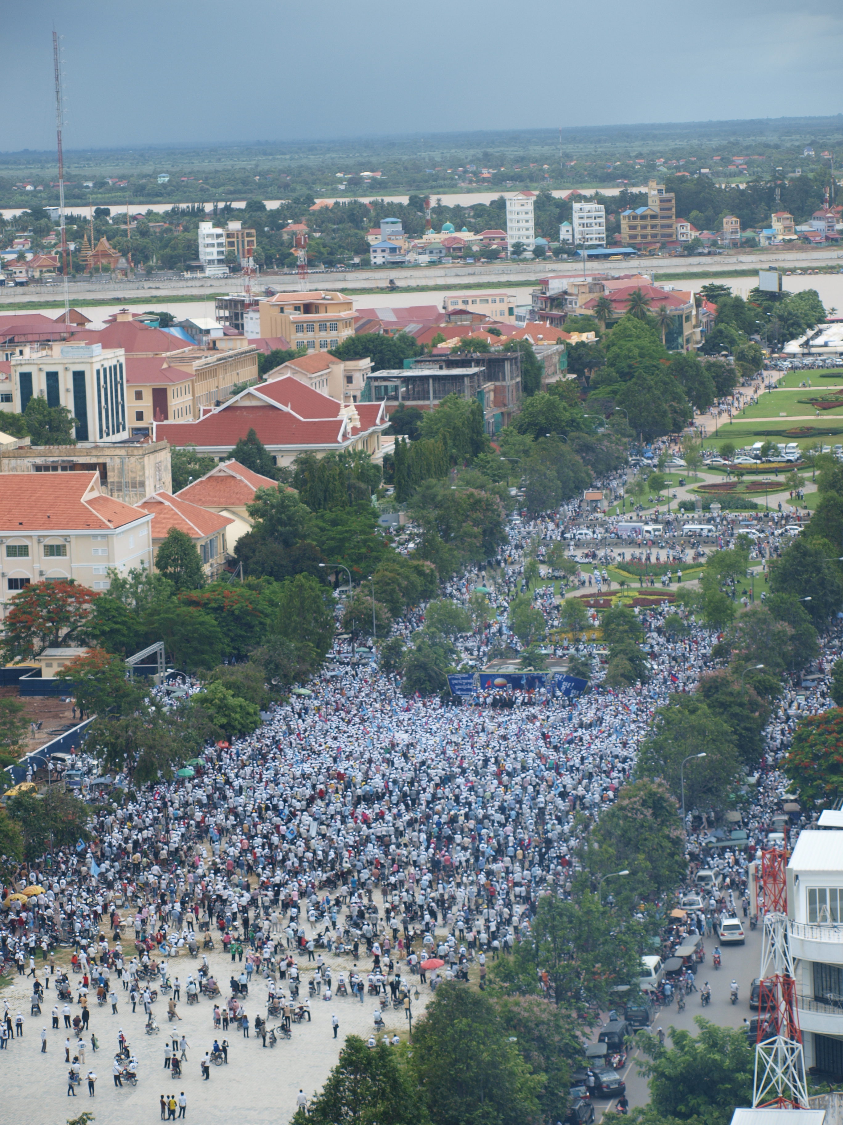 Cambodia National Election 2013 Campaign. Cambodia National Rescue Party. CNRP gathering upon Sam Rainsy's return to Cambodia after exiled 19 July 2013.